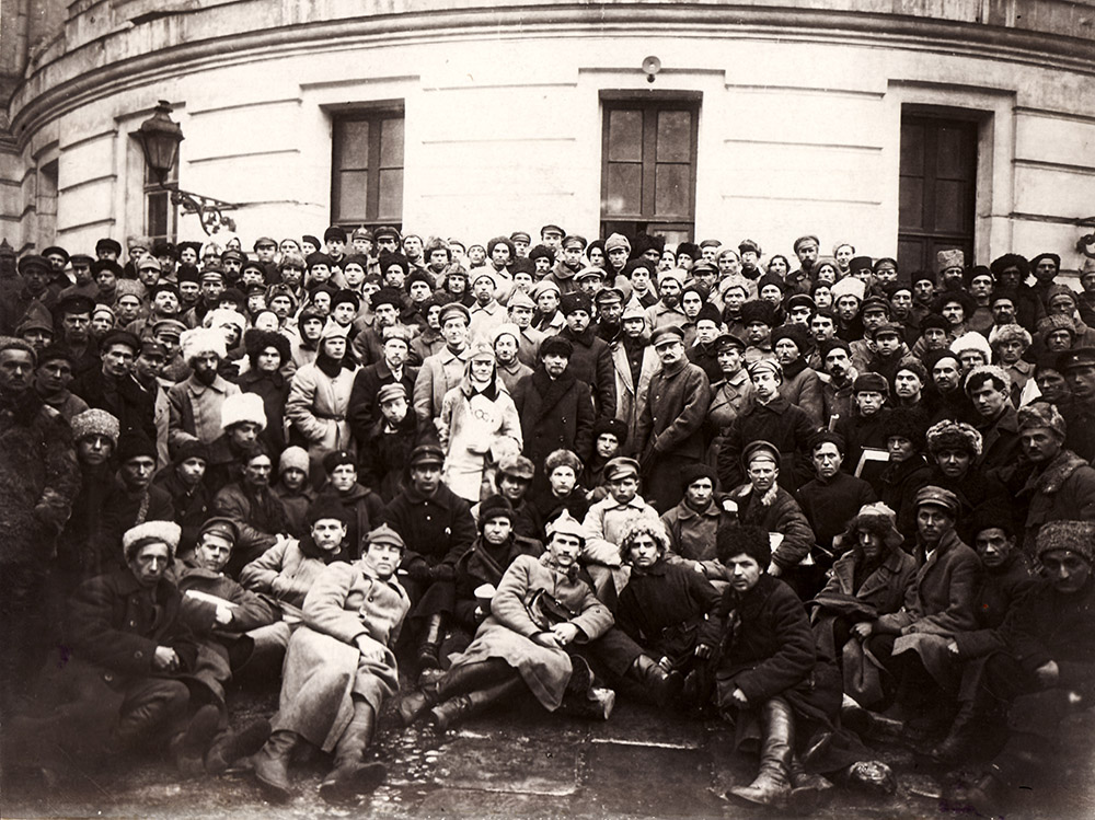 Lenin, Voroshilov (behind Lenin) and Trotsky (from left to right, in the center of the image) among soldiers among the delegates to the Tenth Congress of the R.C.P.(B) - the participants in the liquidation of the Kronstadt uprising. Moscow.[1]